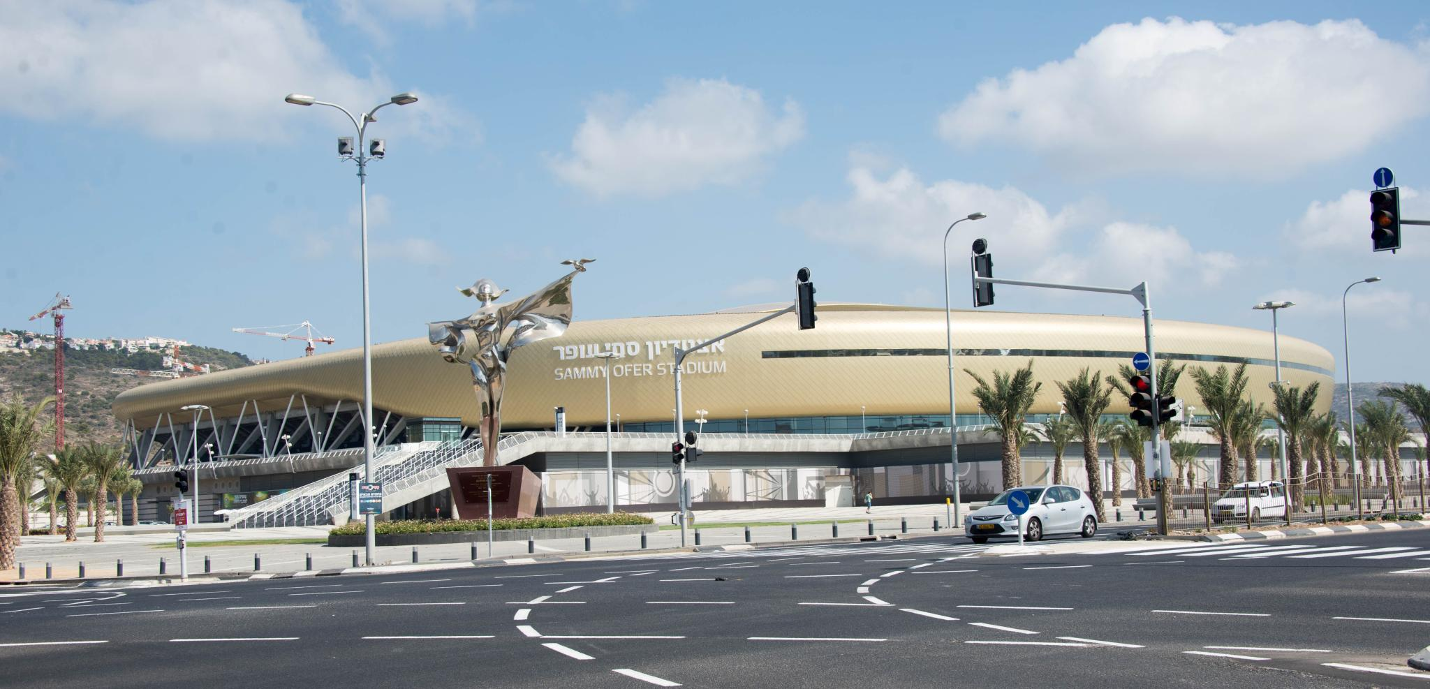 Sammy Ofer Stadium, Haifa, Israel